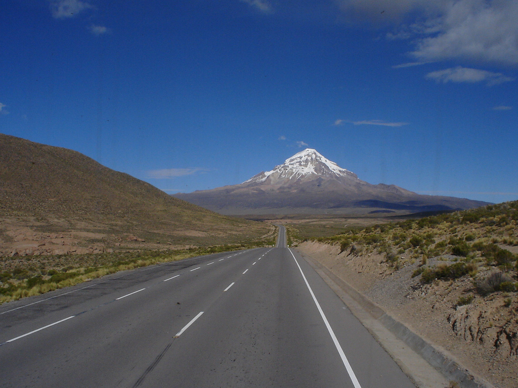 From the truck cabin, on the road to Chile